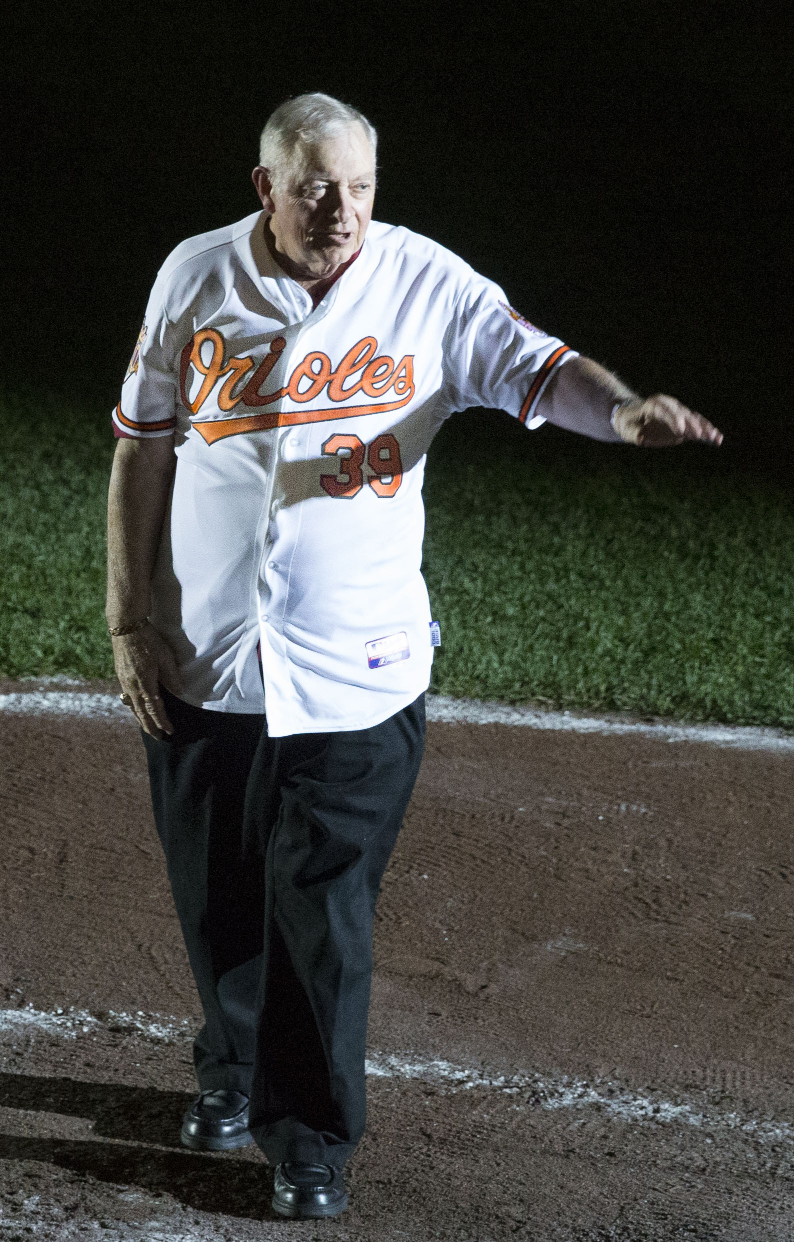 Eddie Watt at Camden Yards in 2014